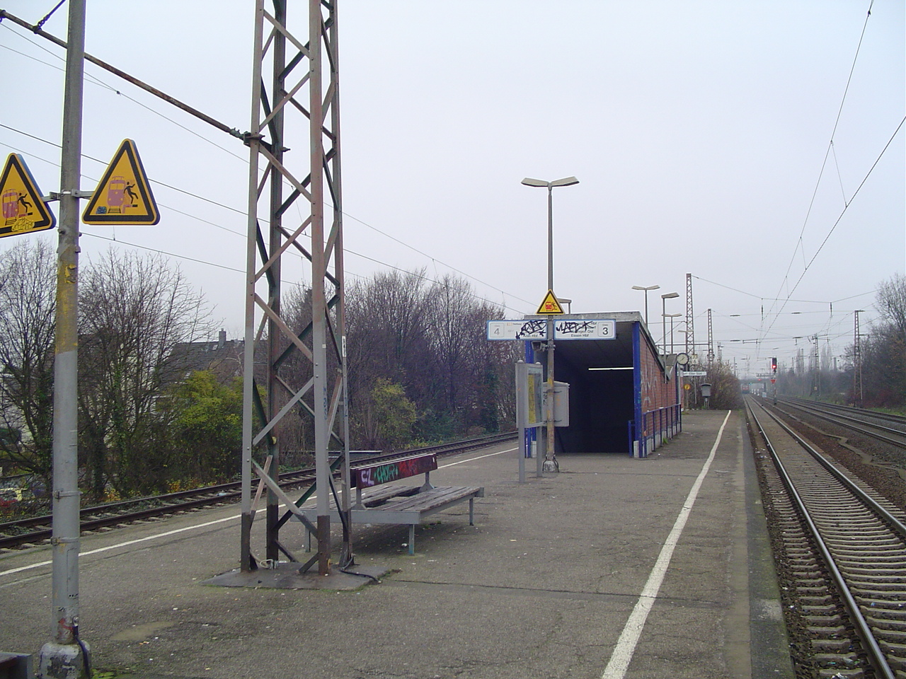 Düsseldorf-Eller Süd S-Bahn stop, Germany